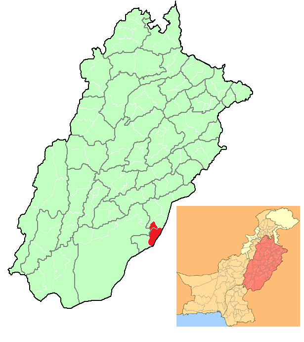 map of marot